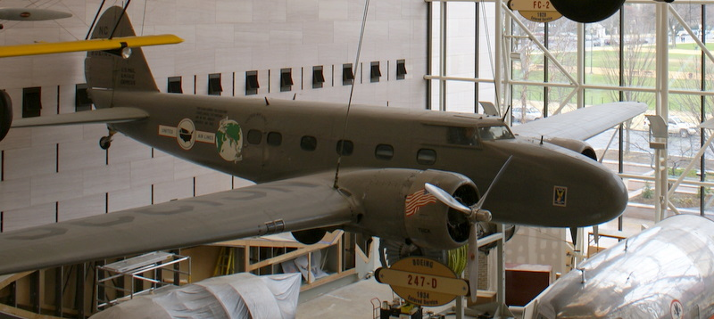 Boeing 247D at the National Air and Space Museum with United Air Lines markings.(more) Photo by Asiir 13:44, 13 February 2007 (UTC)